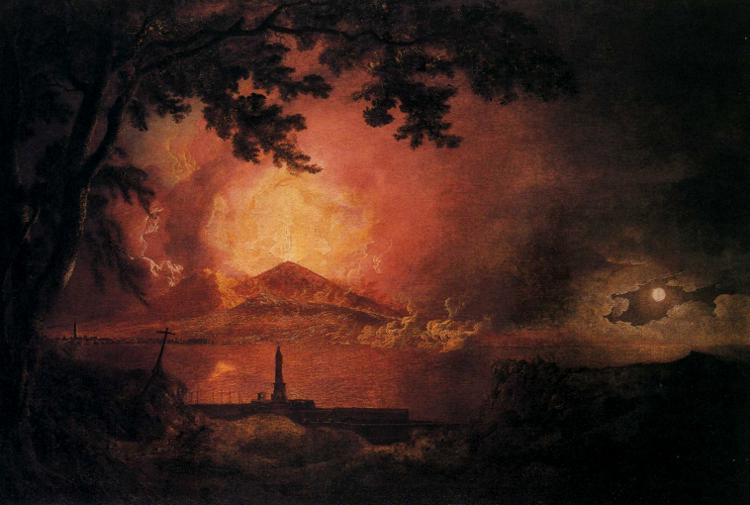 Joseph Wright of Derby. Vesuvius in Eruption. c.1777-80. Oil on canvas. 124.4 x 180.3. Private collection.